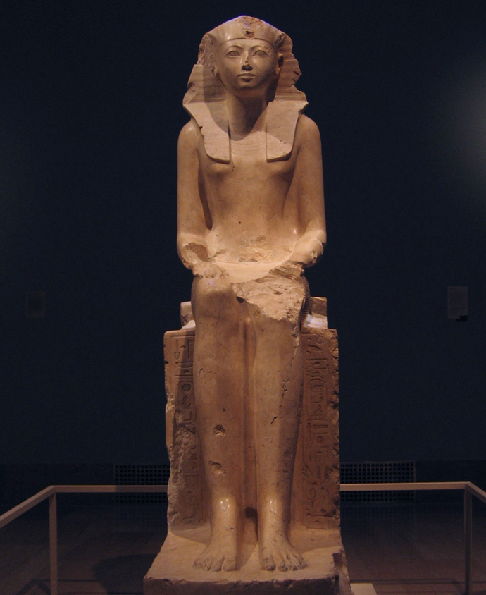 Hatshepsut, Eighteenth dynasty of Egypt, c. 1473-1458 B.C. Indurated limestone sculpture at the Metropolitan Museum of Art, New York City. Hatshepsut is depicted in the clothing of a male king though with a feminine form. Inscriptions on the statue call her "Daughter of Re" and "Lady of the Two Lands." Most of the statue's fragments were excavated in 1929, by the Museum's Egyptian Expedition, near Hatshepsut's funerary temple at Deir el-Bahri in Thebes. The torso had been discovered in 1845, taken to Berlin, and acquired by the Museum in 1930.